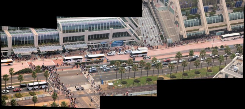 Panoramic photo of the people around Comic Con in 2011 as seen from a helicopter. (Outside of San Diego Convention Center, Harbor Drive at 5th Street, San Diego.) Please acknowledge "Phil Konstantin" as the creator of this photograph.